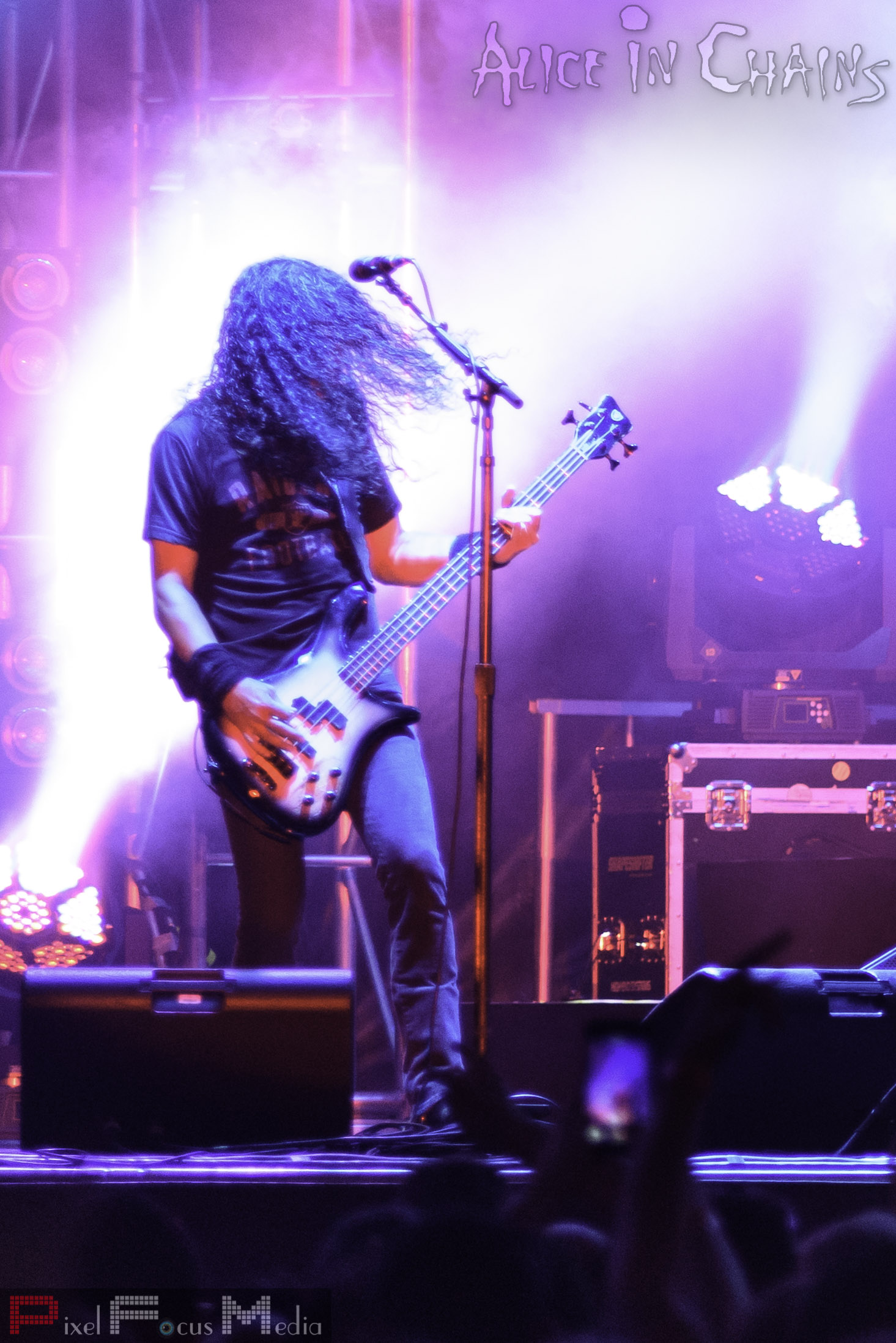 Mike Inez live at 2016